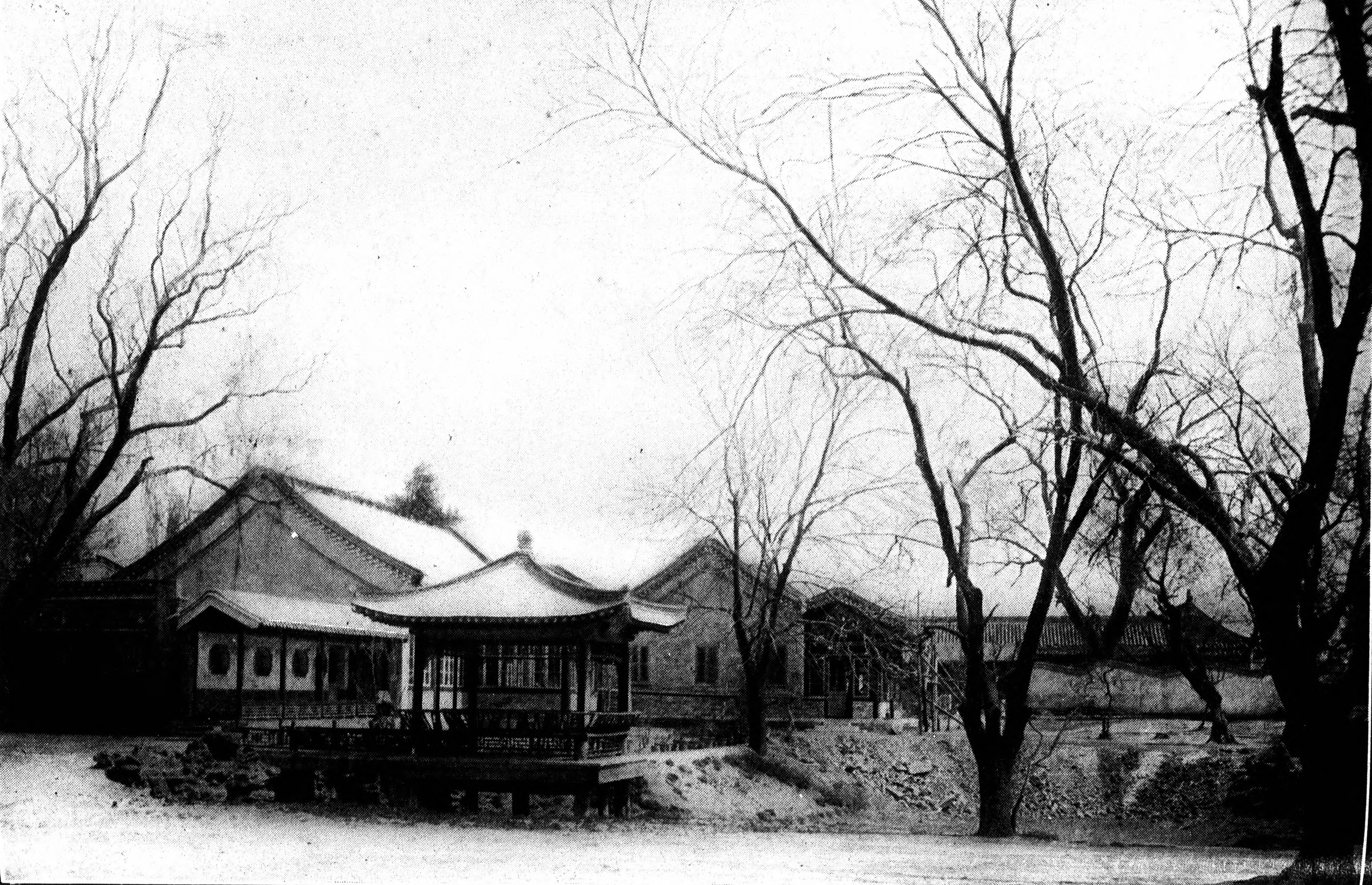 Photo from China in Convulsion (1901)